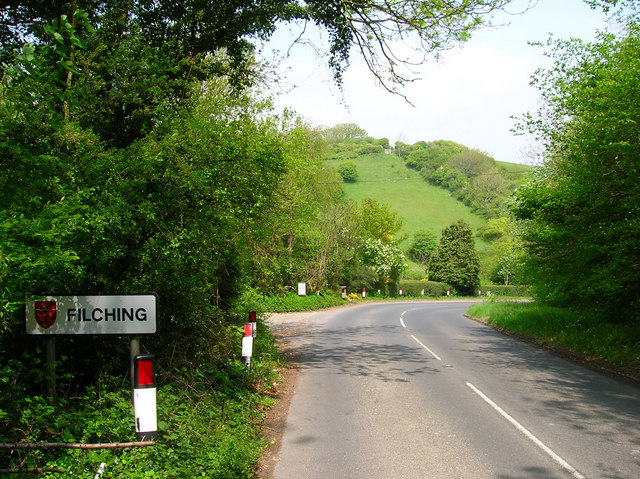 Filching. Small hamlet between Jevington and Polegate consisting of a 15th century manor house, a teahouse and a few cottages. The entrance to Filching quarry is on the left and Crane Down is straight ahead.